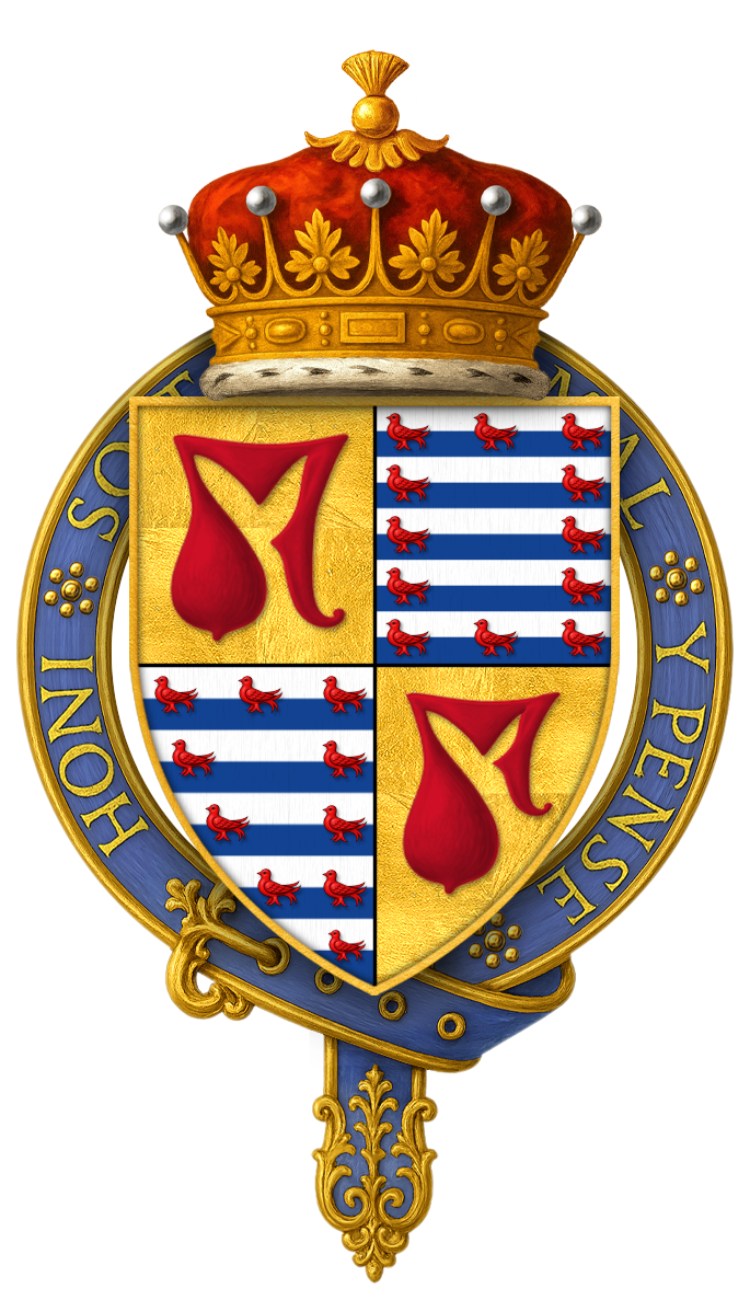 Coat of Arms of Sir John Hastings, 2nd Earl of Pembroke, KG “ John Hastings Second Earl of Pembroke… Arms: Quarterly, 1st and 4th, Or, a maunch gules, for Hastings; 2nd and 3rd, Barry of twelve, Argent and Azure, an orle of eight martlets Gules, for Valence. ” BELTZ, George Frederick, Memorials of the Order of the Garter from Its Foundation to the Present Time, London: William Pickering, 1841.